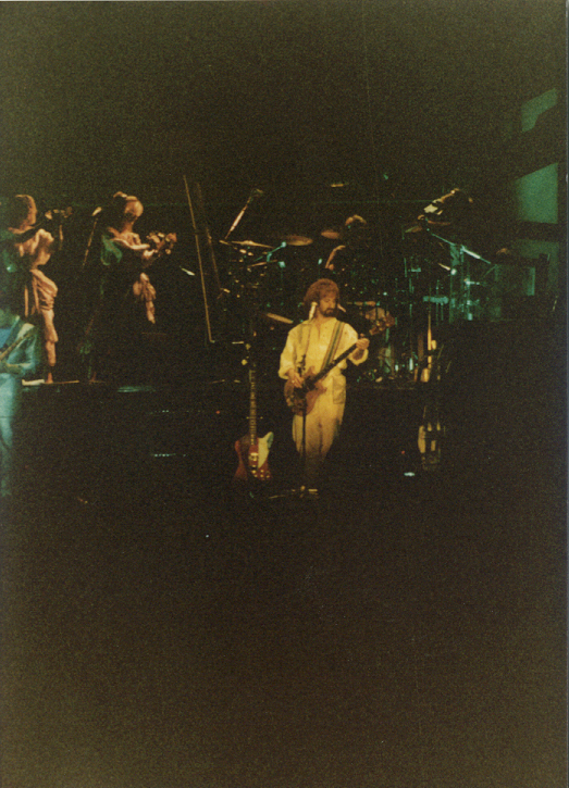 Barclay James Harvest, Hammersmith 1980 something